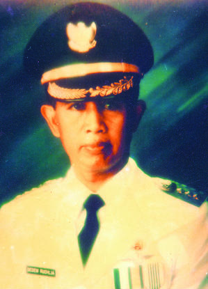 Portrait of Dedem Ruchlia as Regent of Ciamis